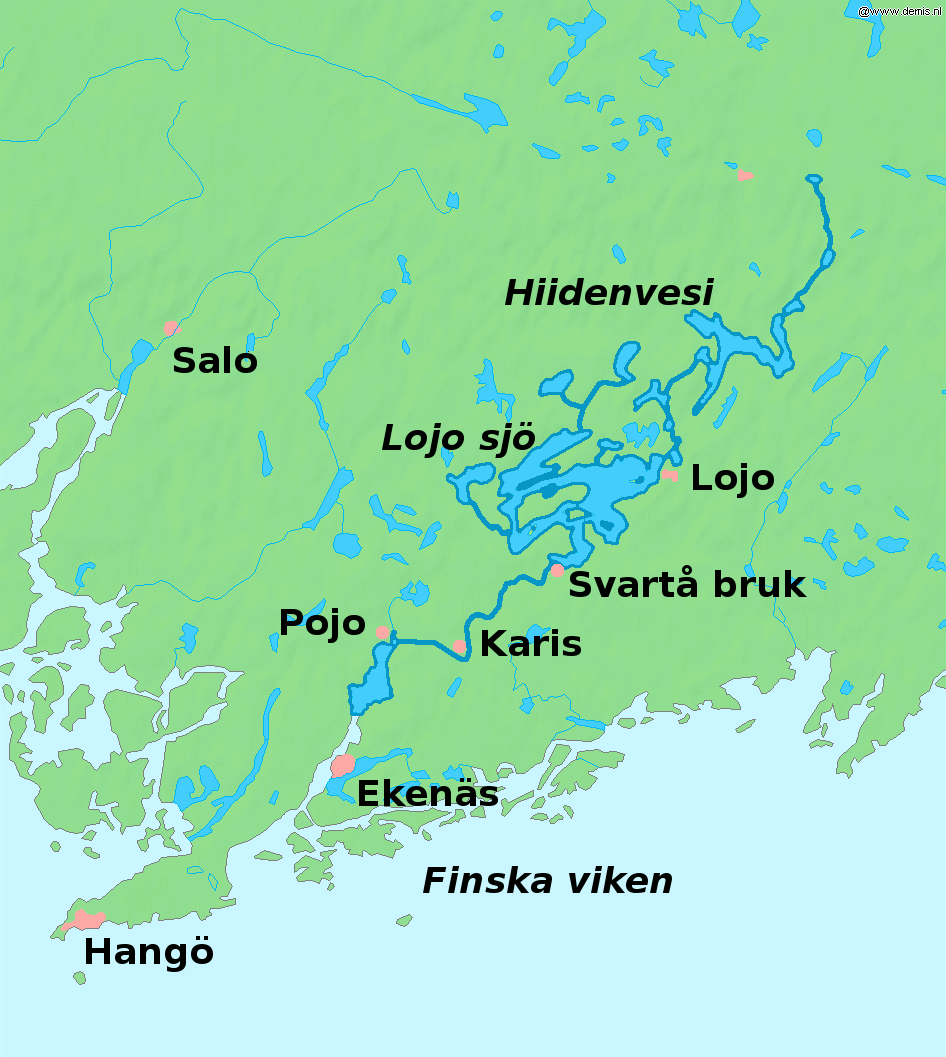 Map of Karjaanjoki river, southern Finland. Names in Swedish.